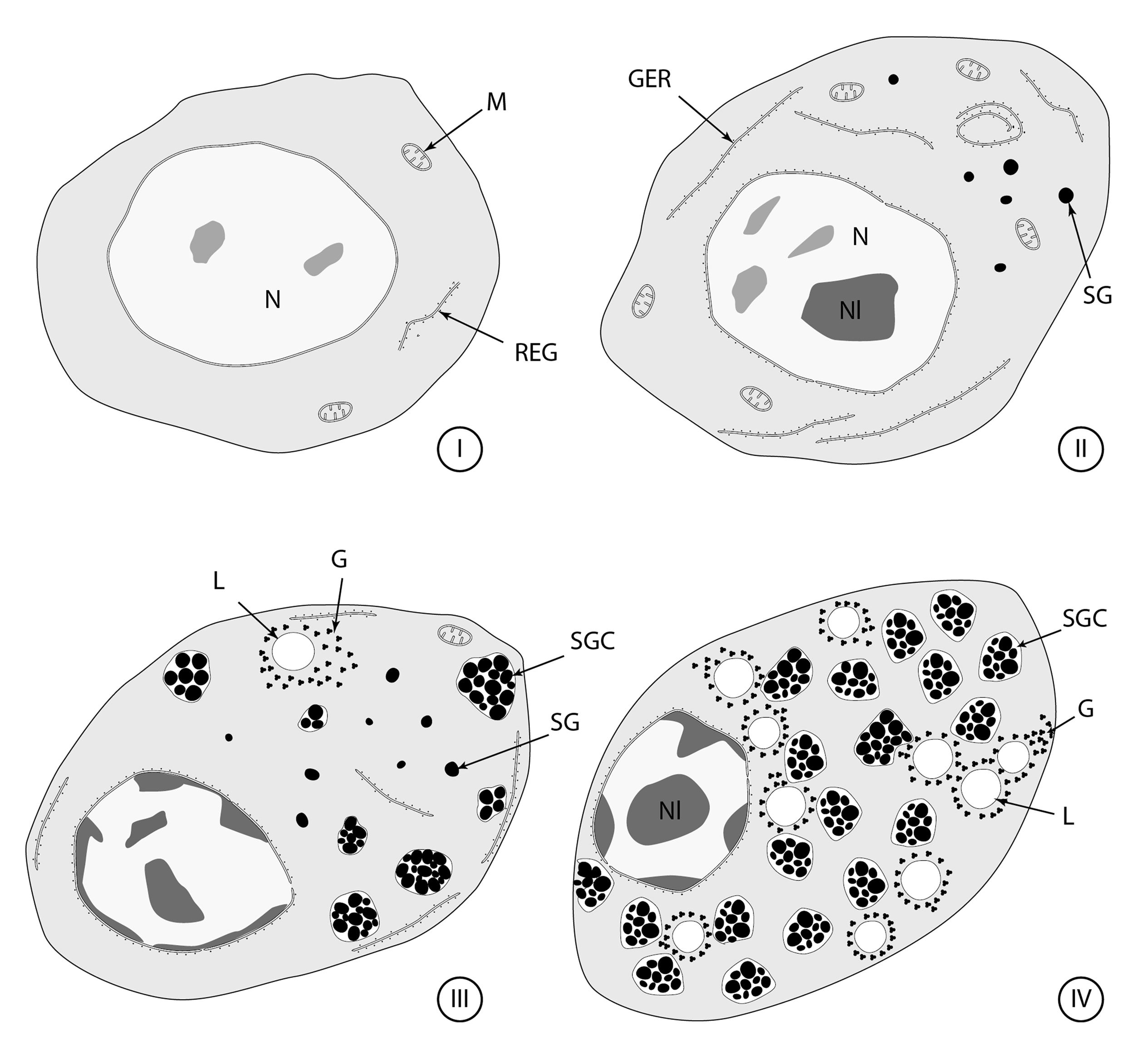 Figure 15 of paper. Diagram showing the four stages (I–IV) of vitellogenesis in Crepidostomum metoecus. G; glycogen particle; GER: granular endoplasmic reticulum; L: lipid droplet; M: mitochondrion; N: nucleus; Nl: nucleolus; SG: shell globule; SGC: shell globule cluster.